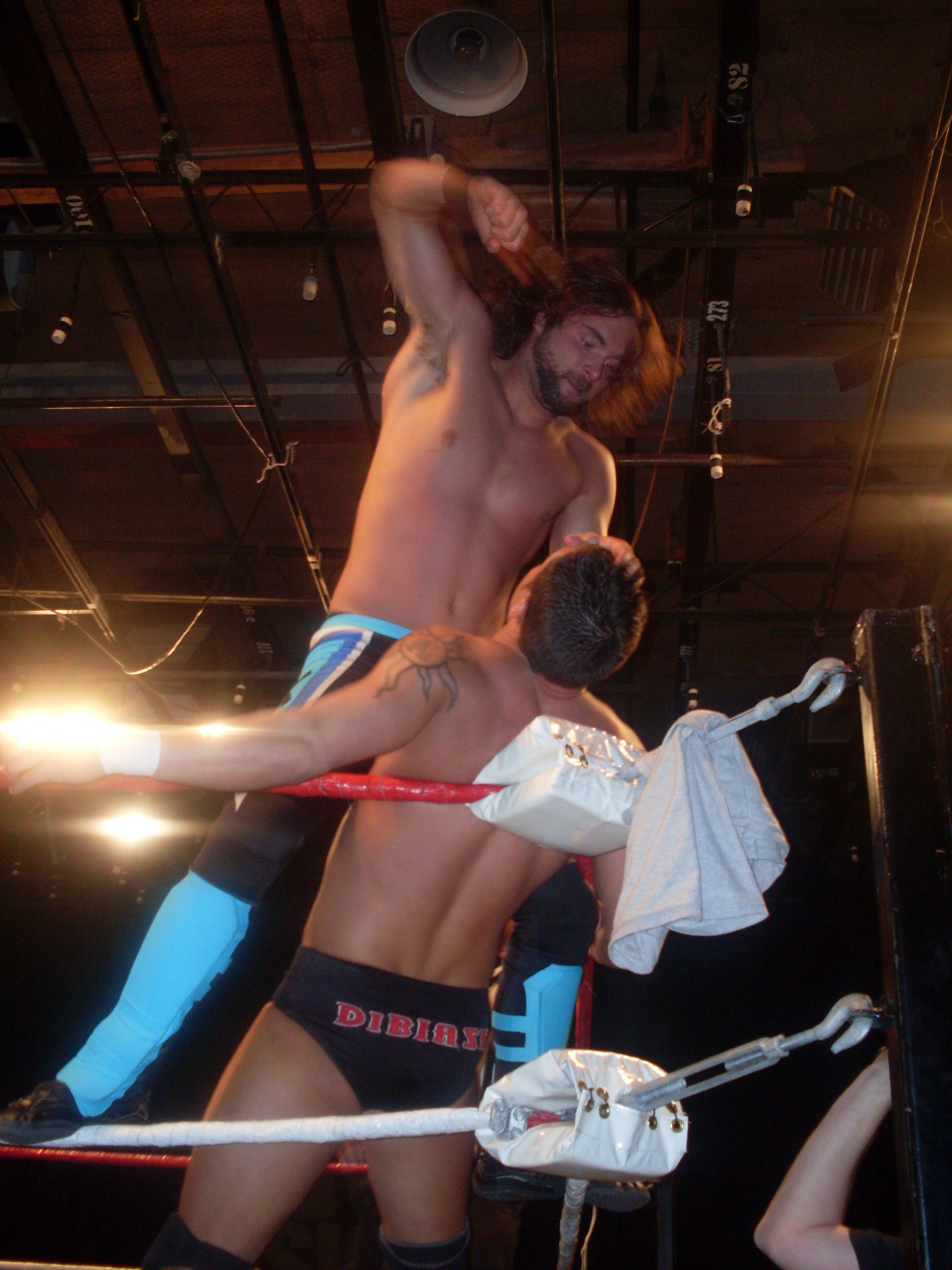 Mike DiBiase (bottom) wrestling Johnny Goodtime (top) at an NWA Hollywood show on December 20, 2008.